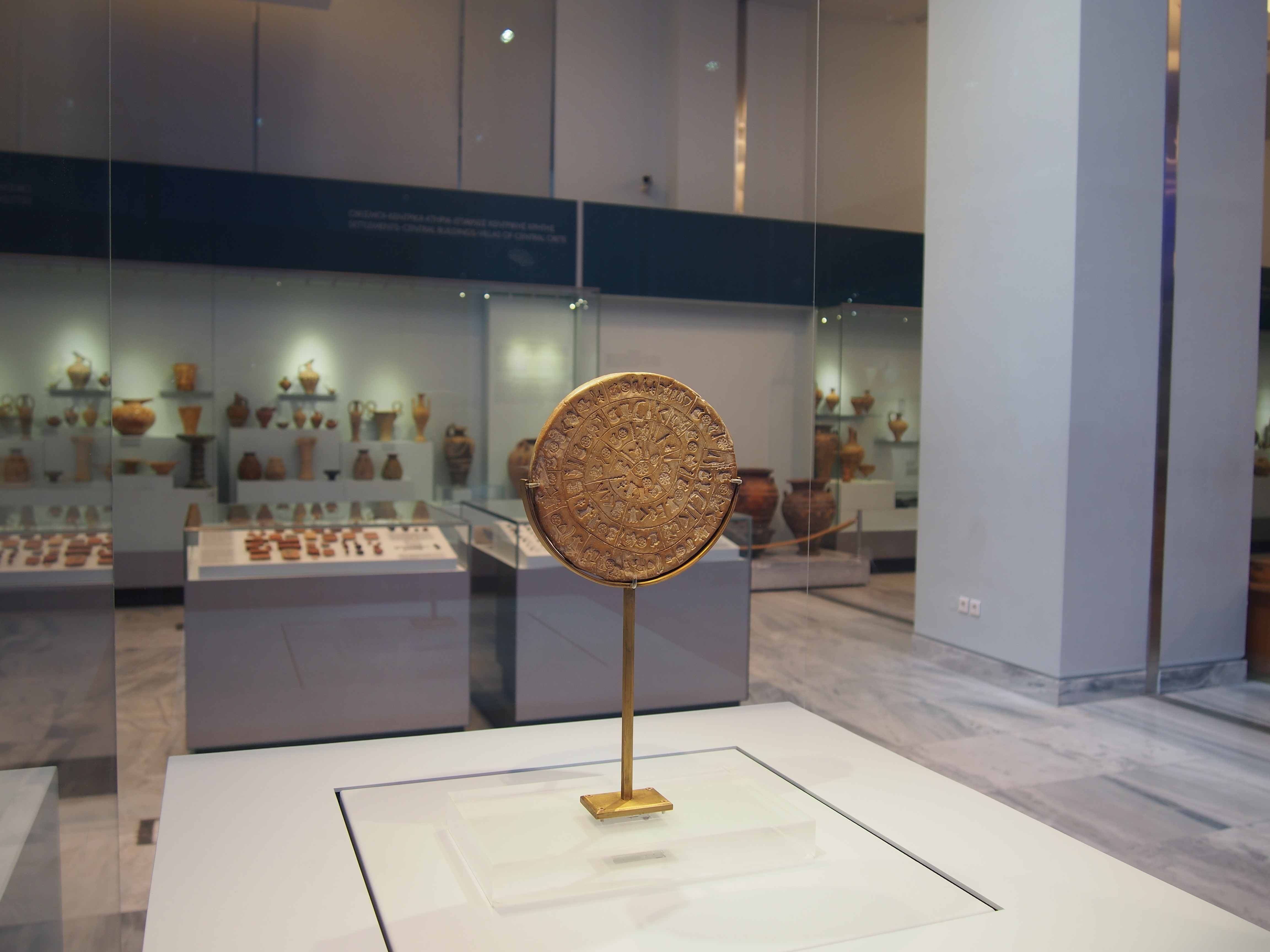 General view of Festos disk